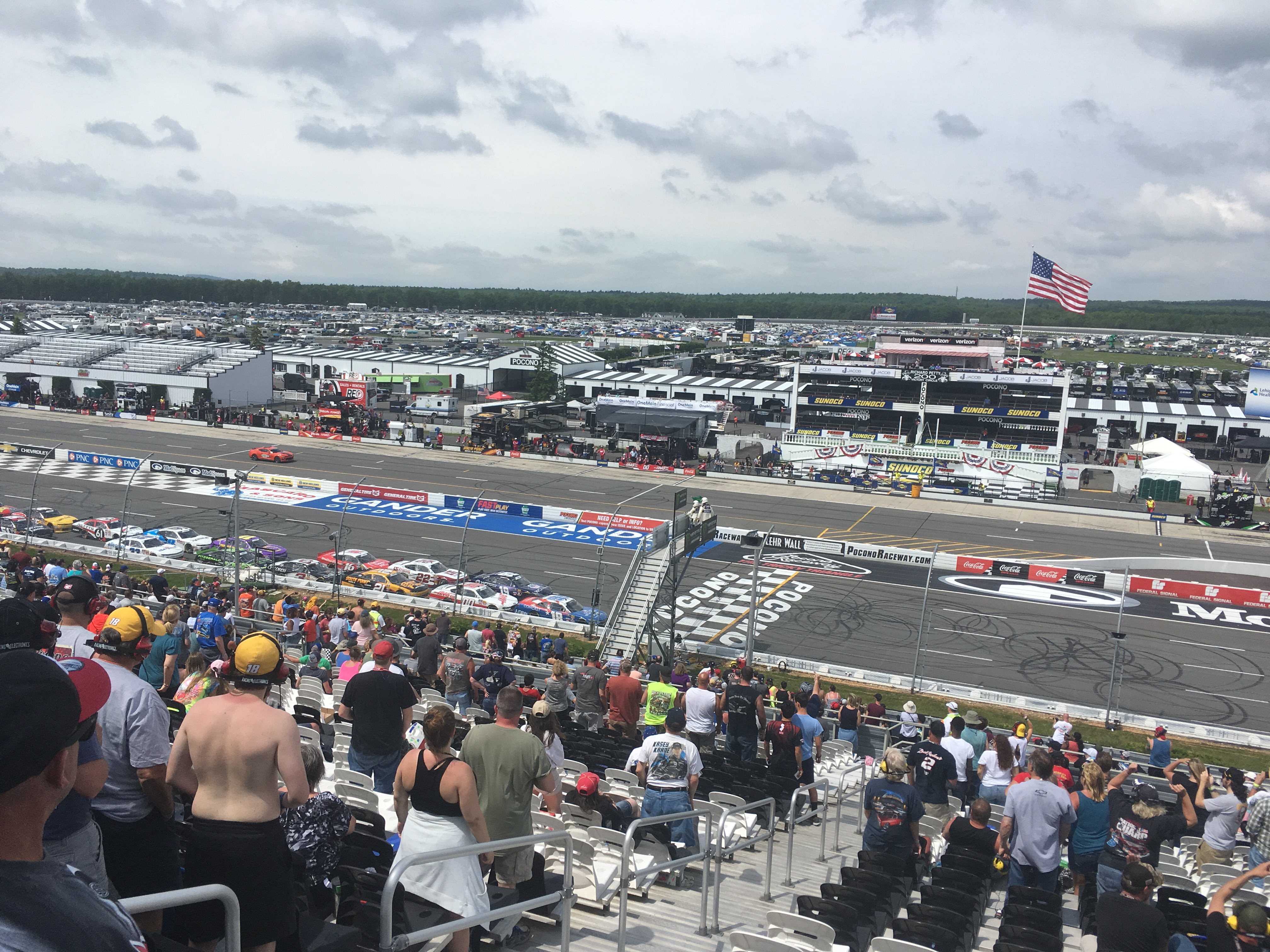 The 2018 Pocono Green 250 at Pocono Raceway viewed from the start/finish line, with Kyle Busch (#18) leading the field on a restart.